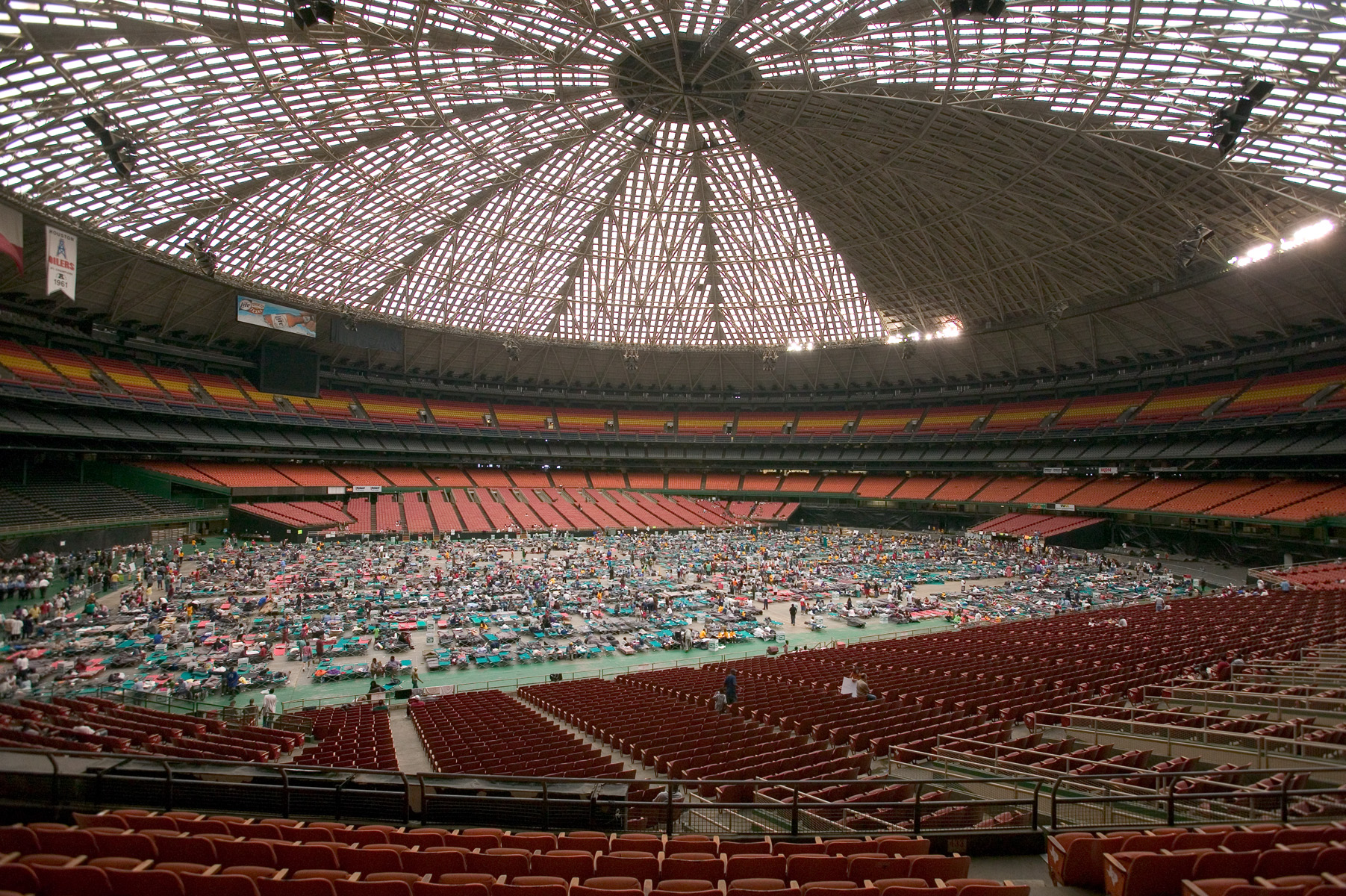 Houston,TX.,9/1/2005--Thousands of hurricane Katrina survivors from New Orleans are bussed to refuge at a Red Cross shelter in the Houston Astrodome. FEMA photo/Andrea Booher